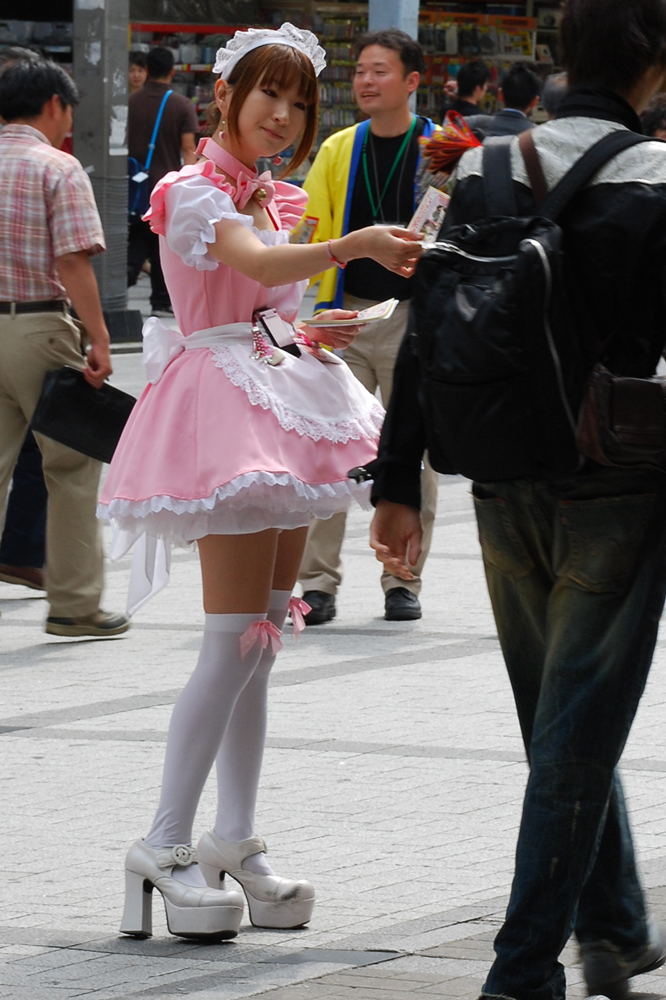 Maid distribute flyers in front of Akihabara station